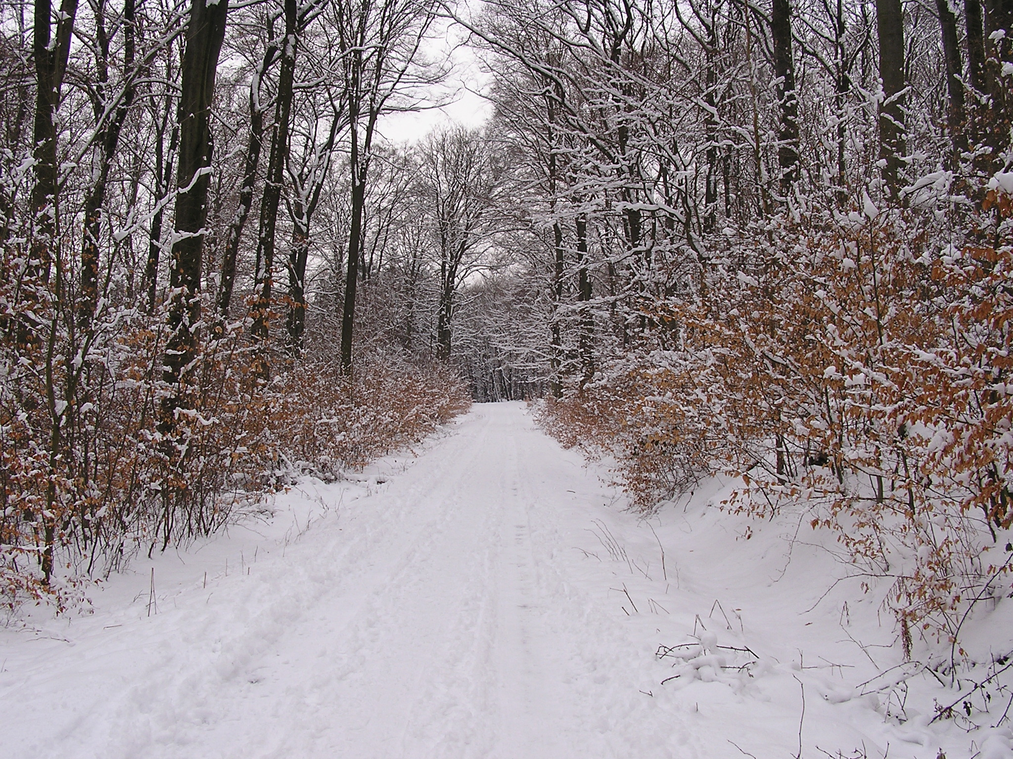 The Seulberger Fahrweg leads directly to the highest point in the Hardtwald, called “Köhlerberg”. The photo was taken in winter.